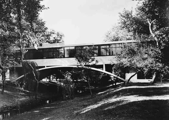 Casa del Puente, the Bridge House, by Argentine architect Amancio Williams (1943-46).